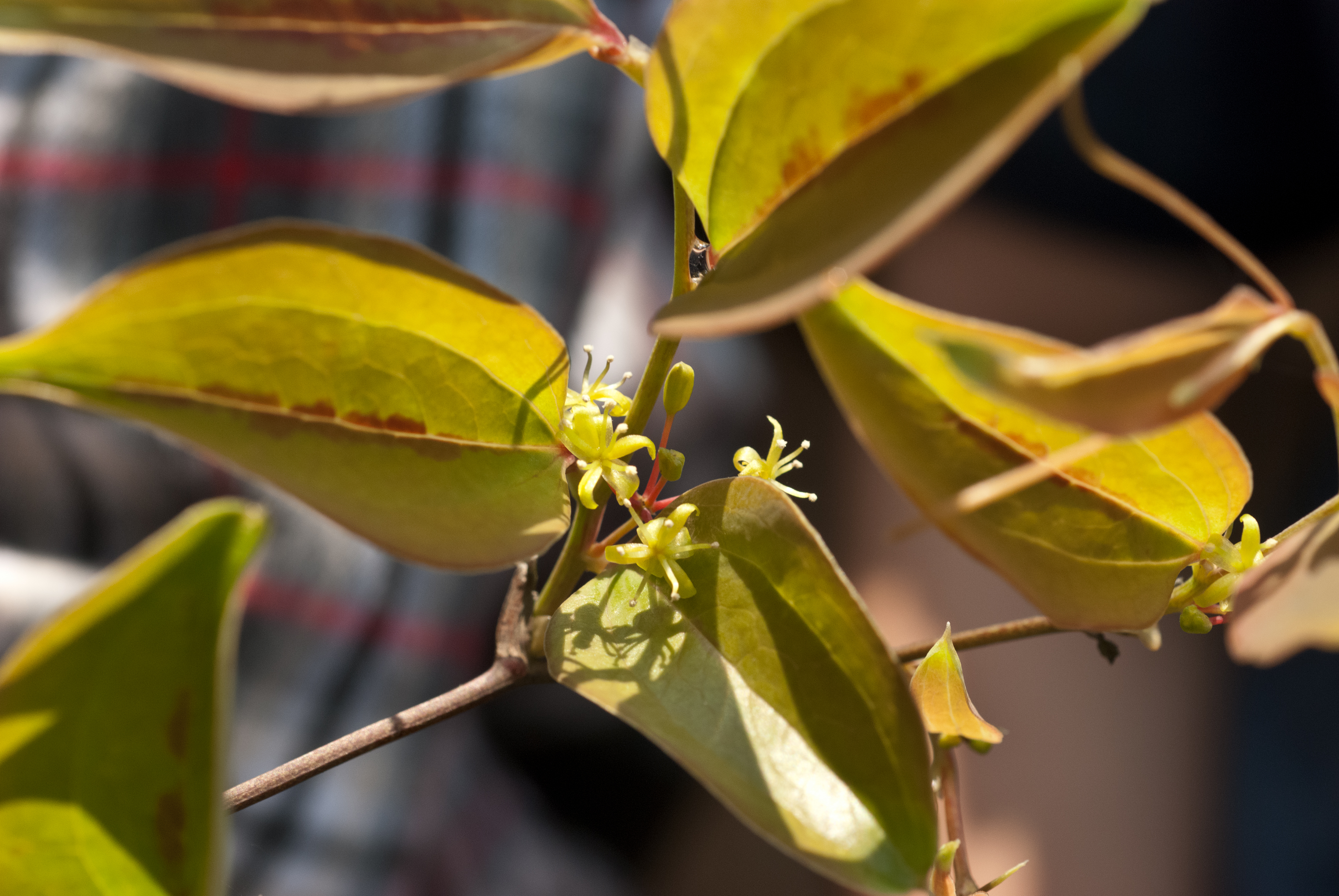 Smilax china.